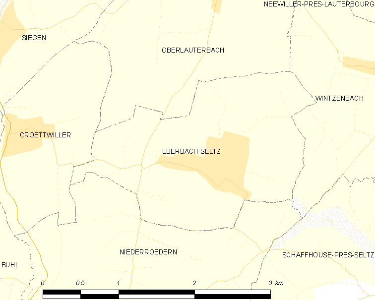 Map of French municipality